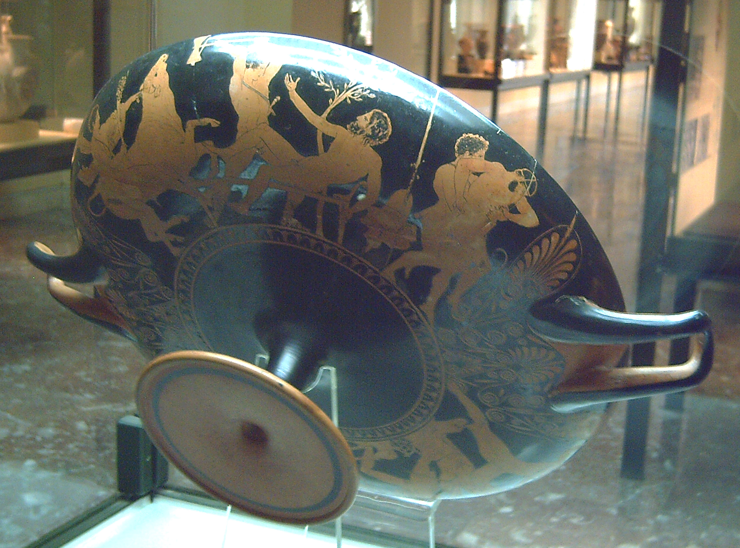 Lower part of the Aison Cup, showing Theseus' deeds.